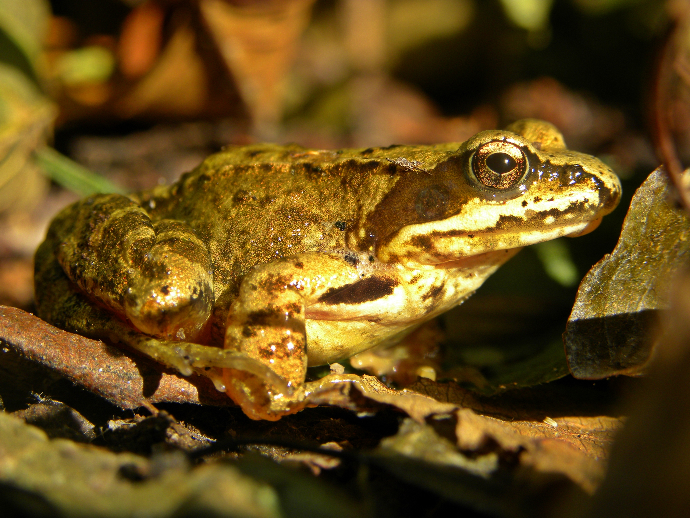 Common Frog